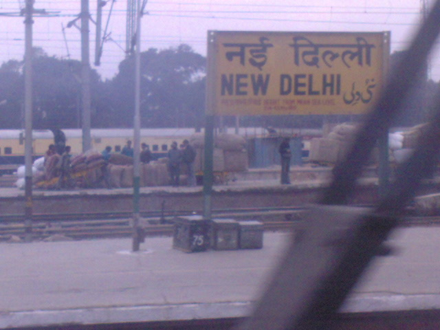 NDLS railway station